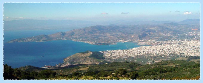 Panorama volos, Greece